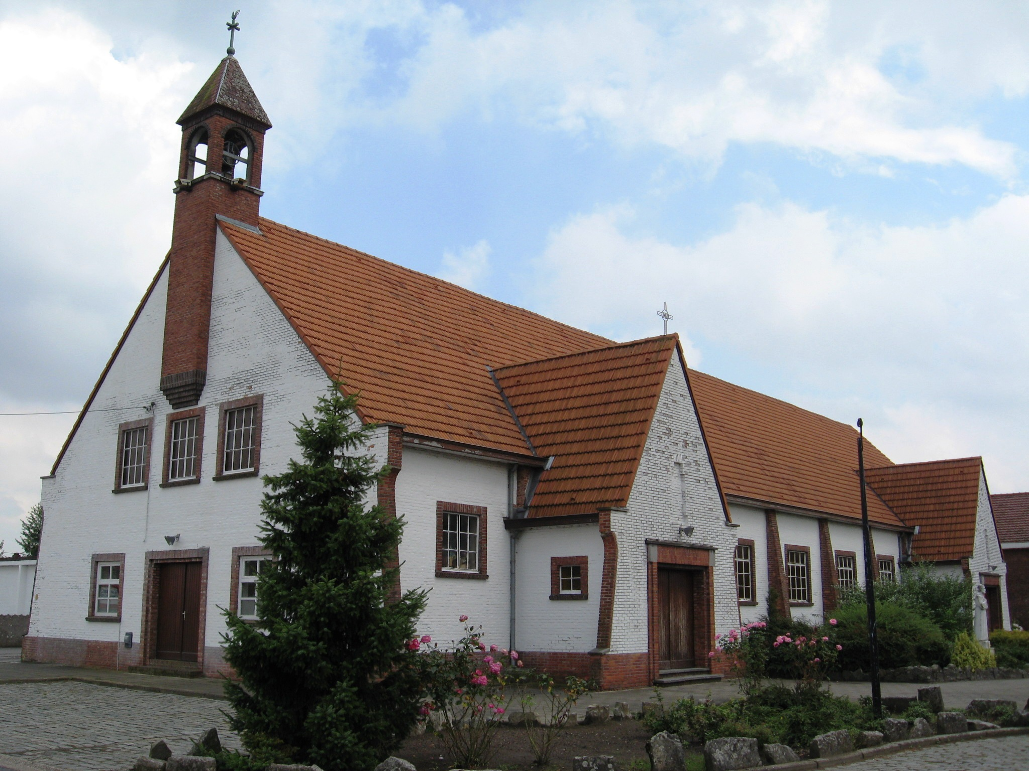 Church of the Blessed Virgin Mary in Leopoldsburg (Strooiendorp), Limburg, Belgium